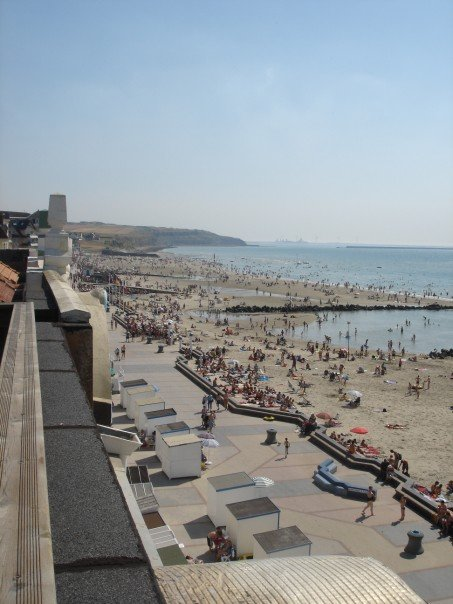 The beach at Wimereux, France. This tide is going out to see. This is still considered high tide.